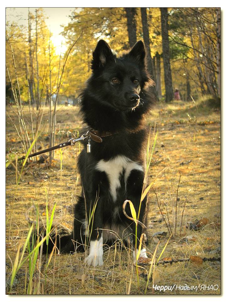 Фото Ненецкая лайка (оленегонный шпиц)